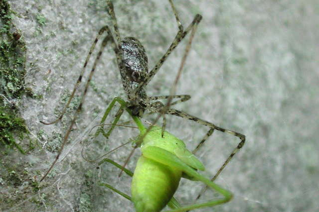 Hypochilus thorelli with katydid, Appalachia.